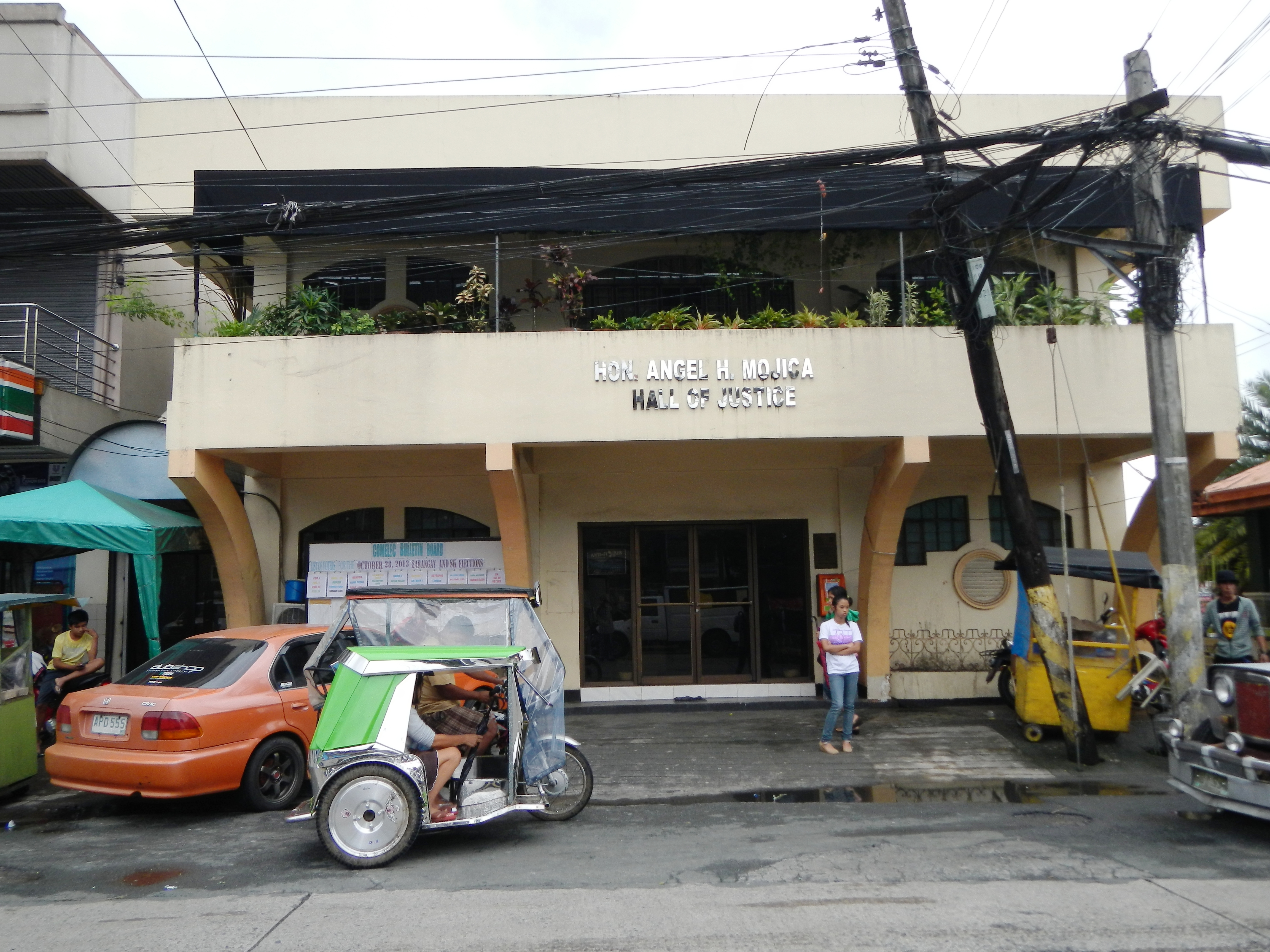 UploadWizard photos -- (General description, 3-dimension angle by angle photography of this town, church & landmarks) -- Indang, Cavite[1] 7-11 Convenience store, [2] Coordinates: 14°12'10"N 120°50'25"E [3] Geographical location: Cavite, Region 4, Philippines, Asia Geographical coordinates: 14° 11' 43" North, 120° 52' 37" Hon. Angel H. Mojica Justice Hall East [4] Centro, downtown, Town hall, Town Proper.